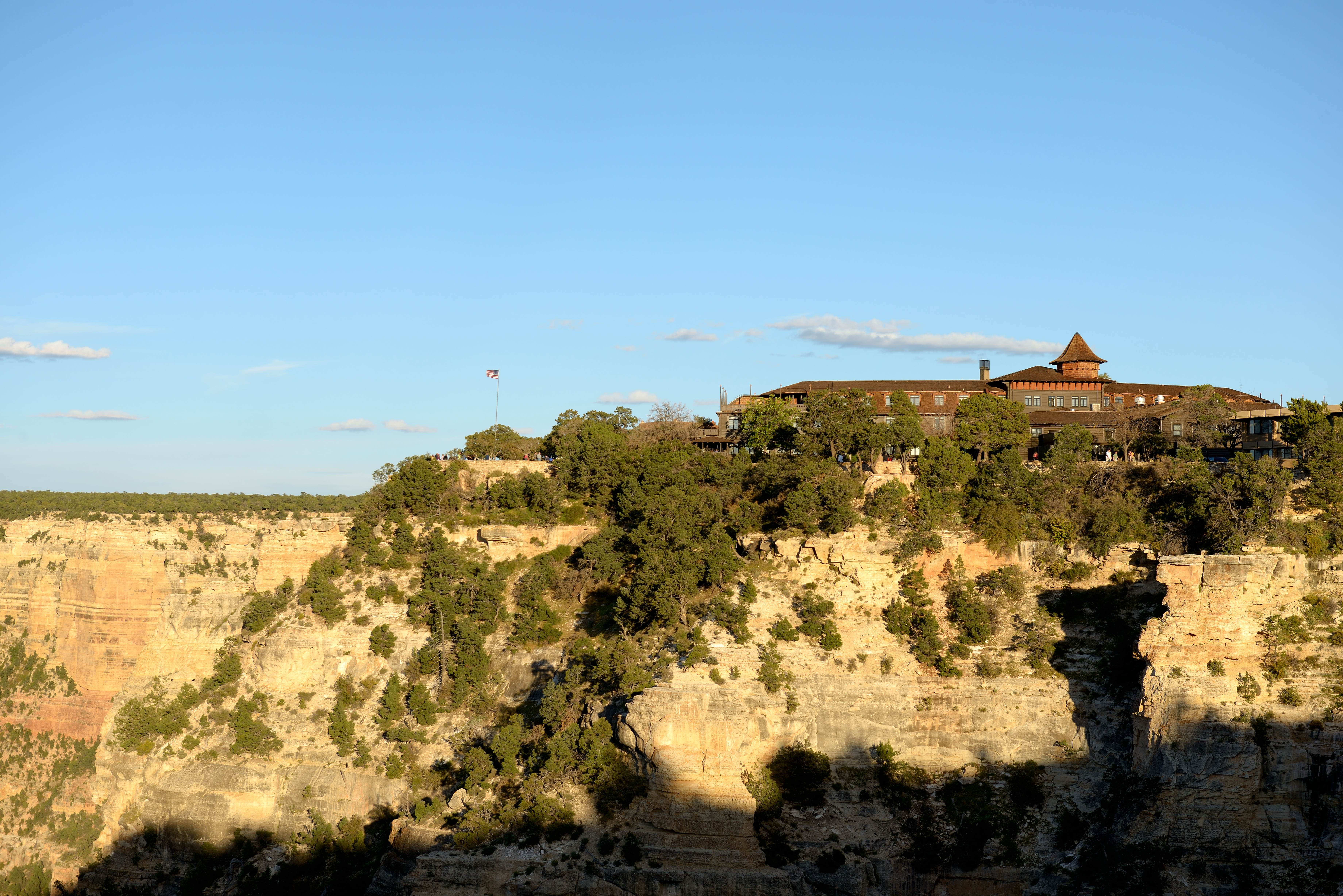 El Tovar Hotel, Grand Canyon Village, Arizona.